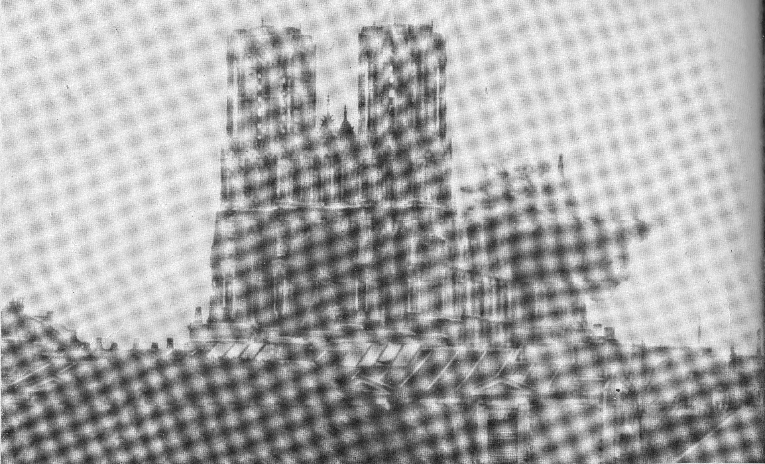 "The Cathedral of Notre Dame at Rheims was one of the most beautiful buildings in the world. The framework was still standing when the Germans began their drive in 1918. In this instance shells burst on the cathedral before the eyes of many spectators." (caption)